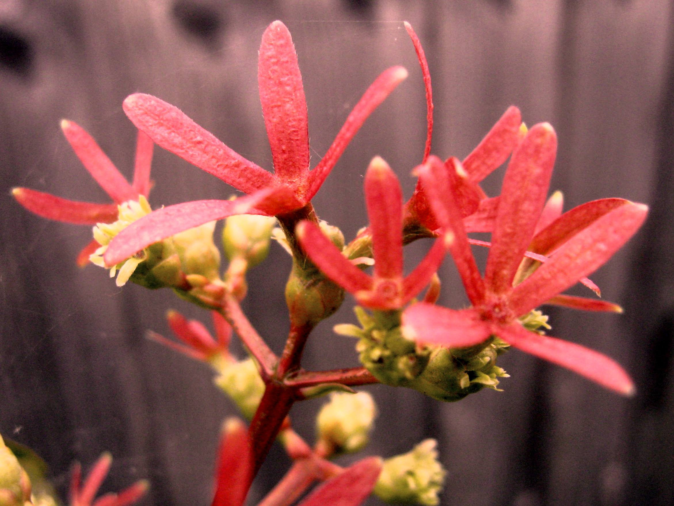 Photo of the calyces of Heptacodium miconiodes taken in England in late October